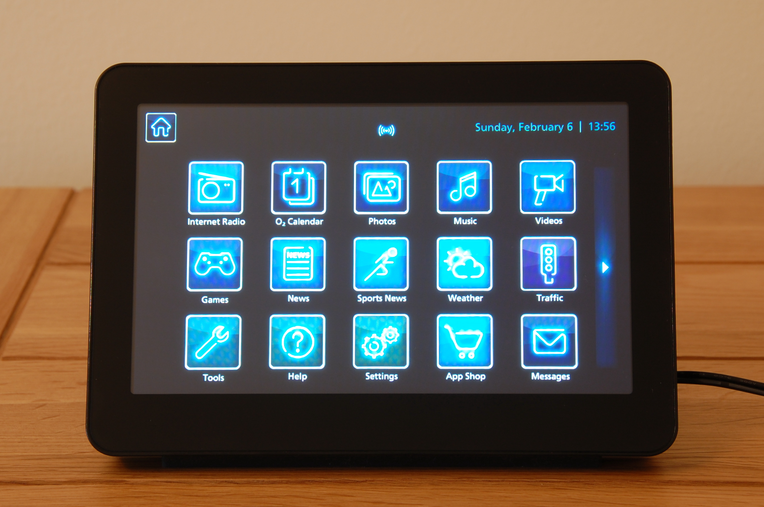 An O2 Joggler display the first page of apps running the native operating system.